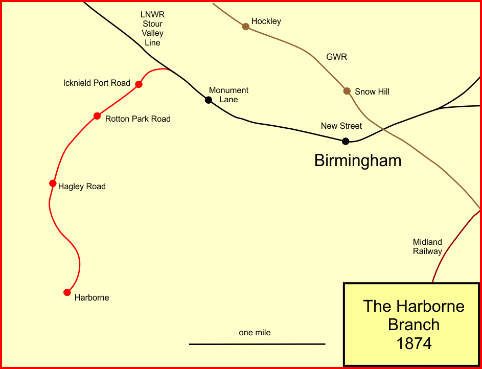 System map of the Harborne Railway in greater Birmingham, England, in 1874